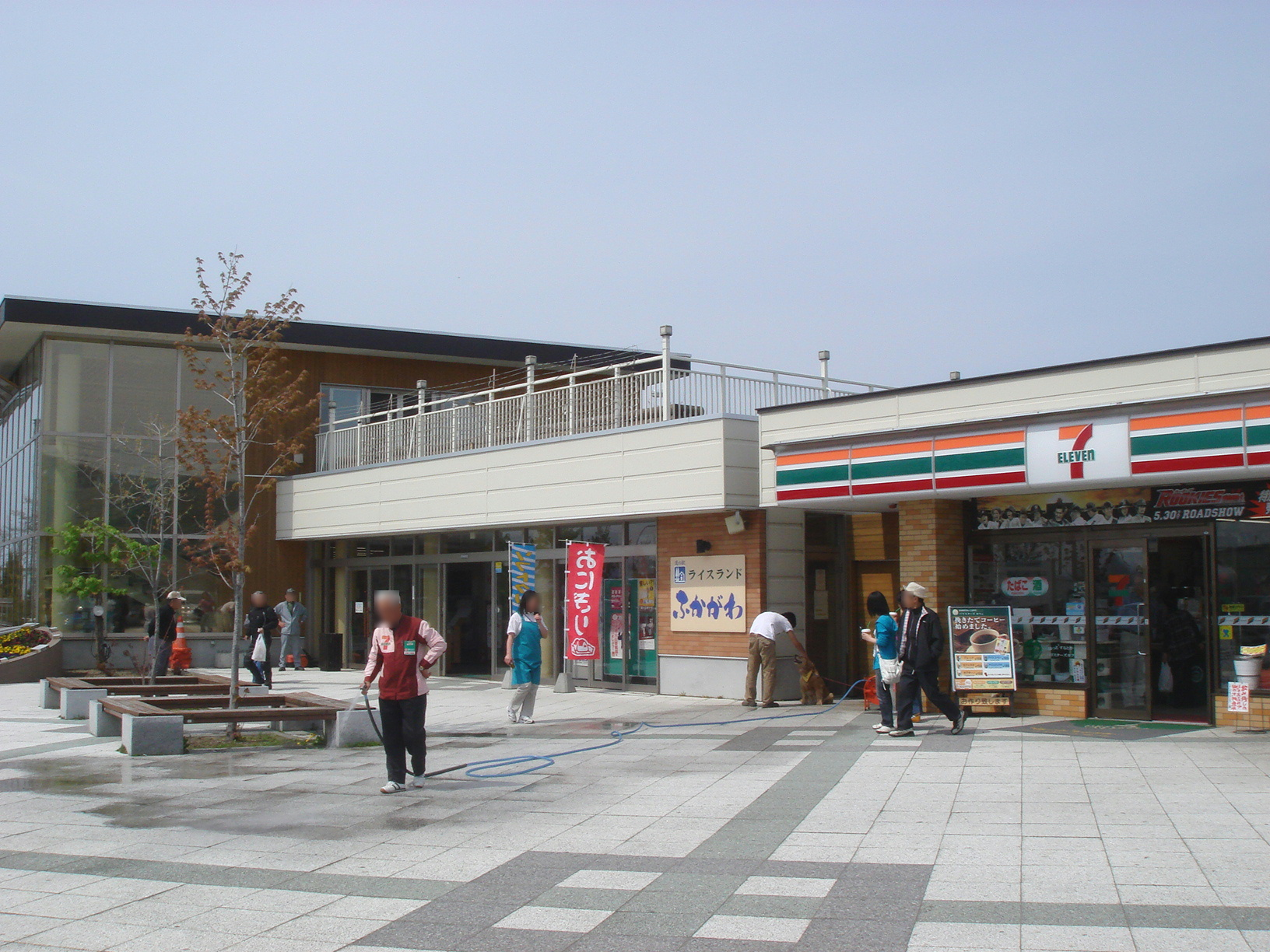 Michinoeki(Roadside Station) Rice Land Fukagawa (Fukagawa, Hokkaidō)